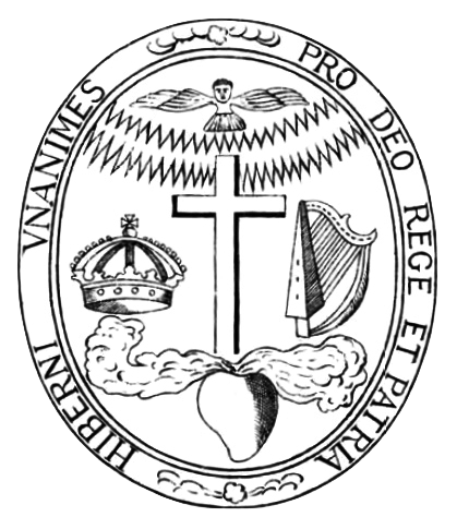 Seal of the Irish Catholic Confederation, 1642-1649